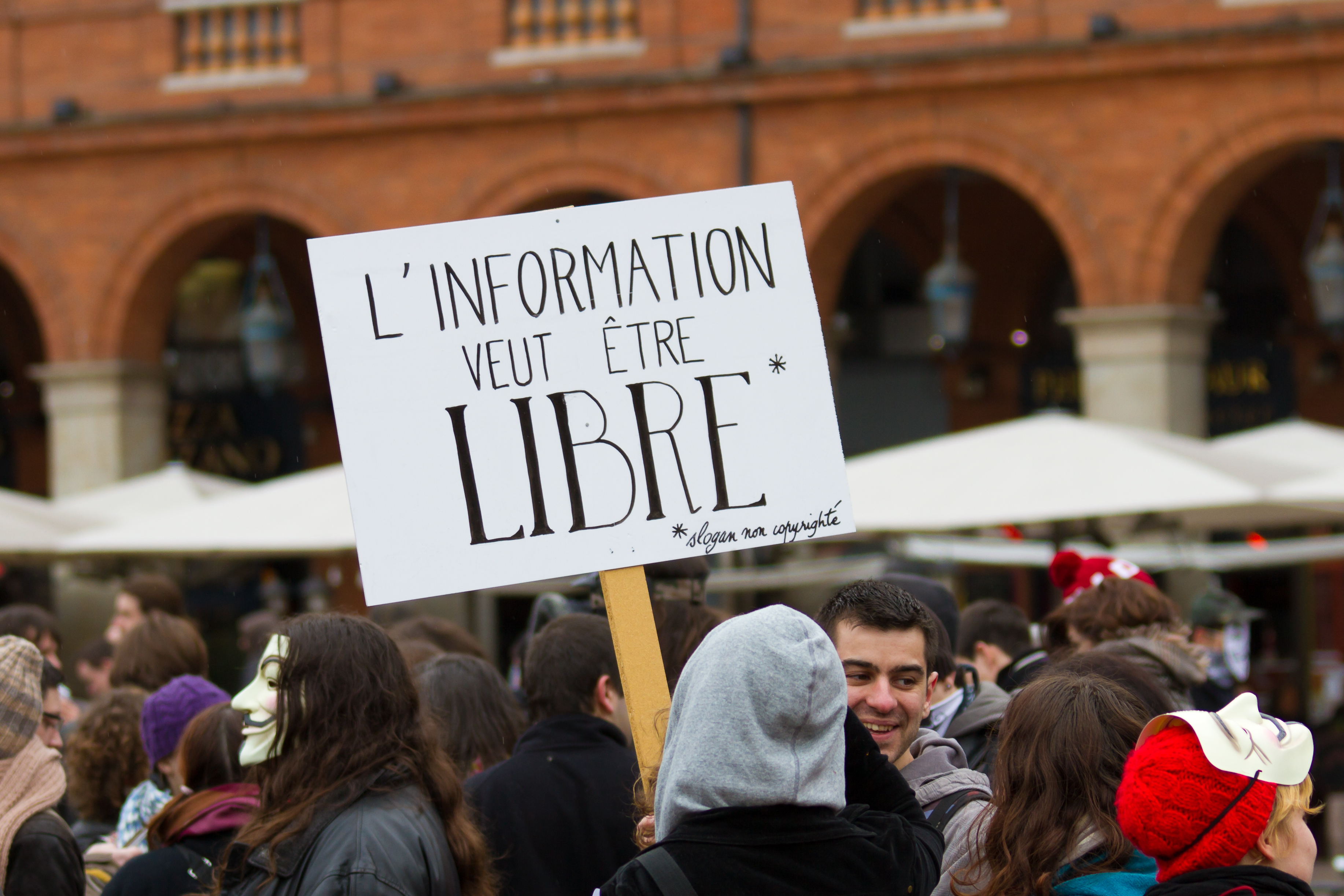 Protest against ACTA in Toulouse on January 28th, 2012 - Information wants to be free Slogan without copyrights